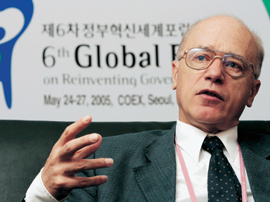 Photo file by prof. koechler, with his permission